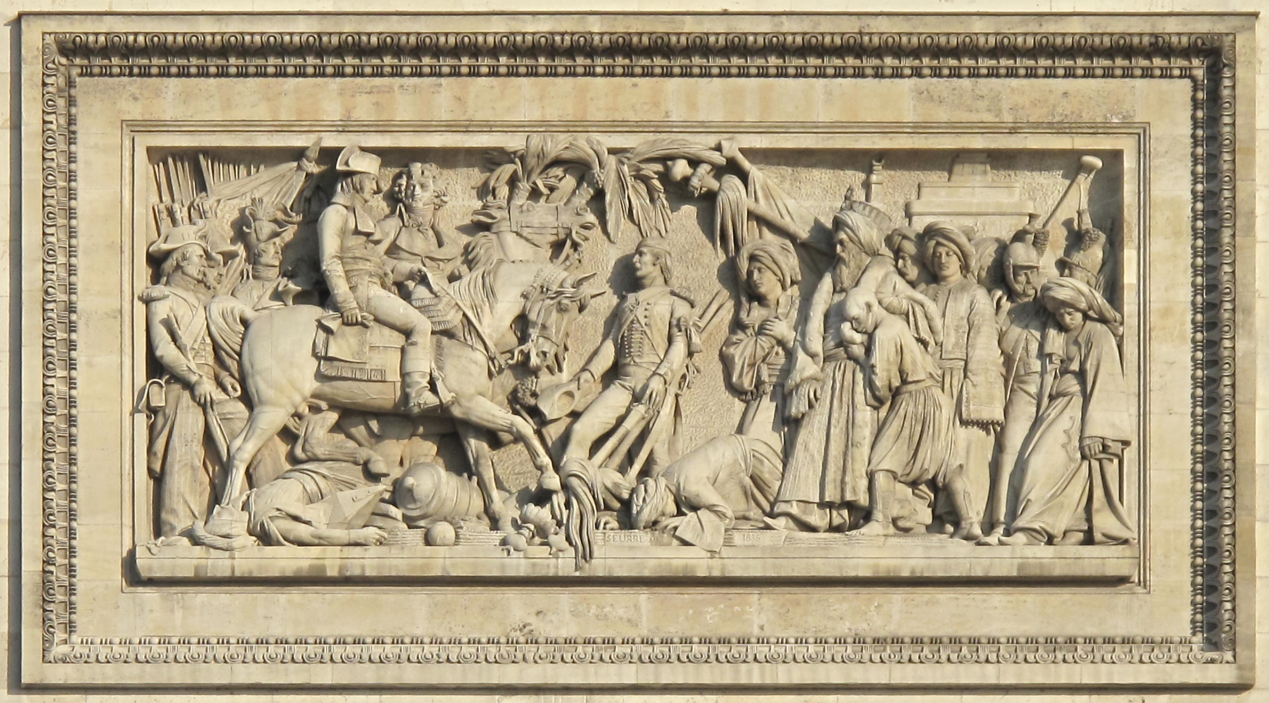 The Arc de Triomphe de l'Étoile in Paris, seen from the Champs-Élysées. Upper relief of the left : battle of Aboukir 25 jul 1799 by Bernard Seure.